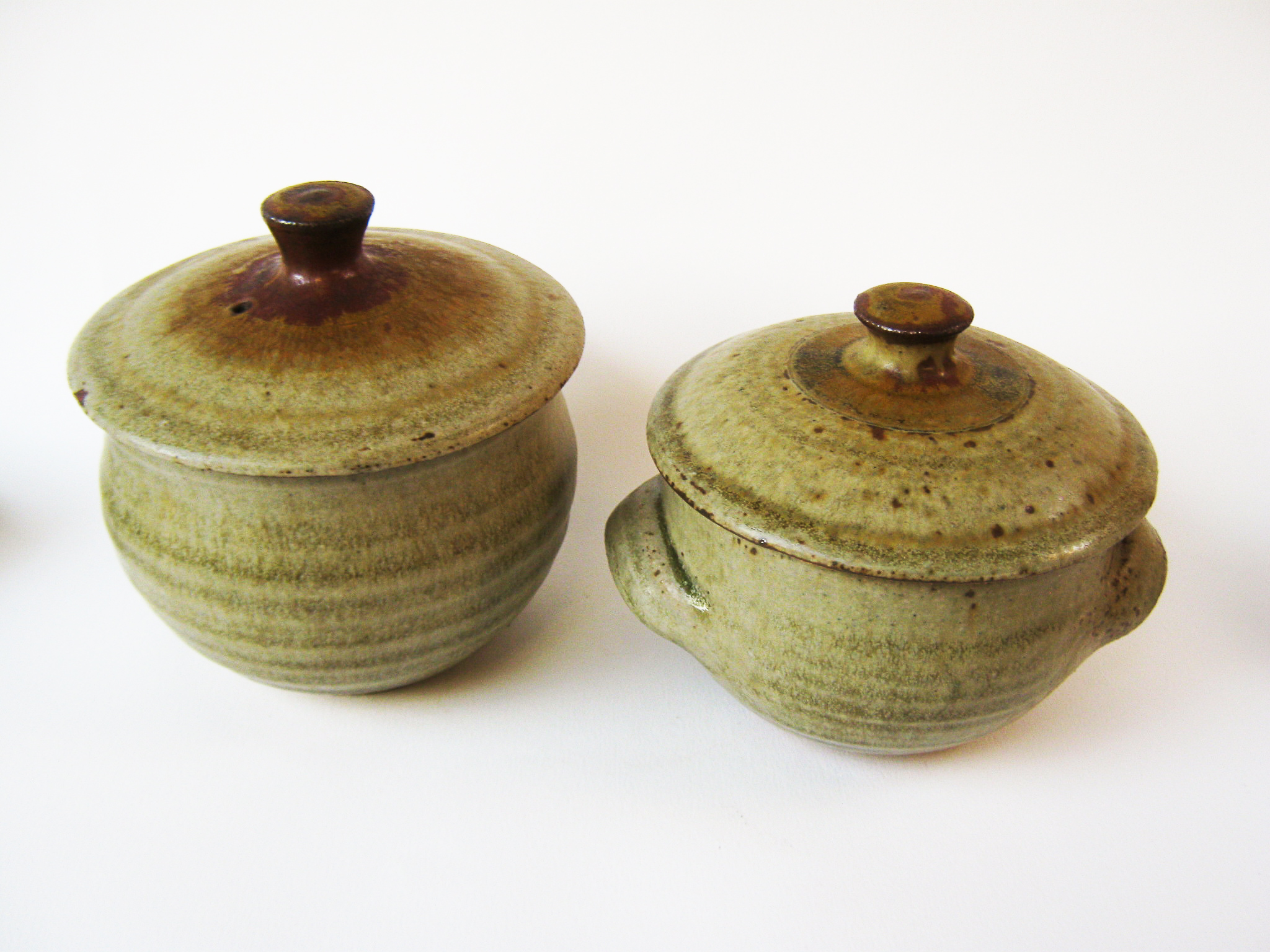 Two ash-glazed storage jars, one with lugs, by Ian Sprague 1970s; photographed in a private collection in Elwood Victoria